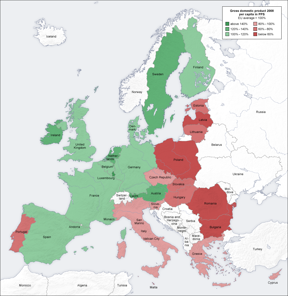 2008 gross domestic product per capita in PPS, map en